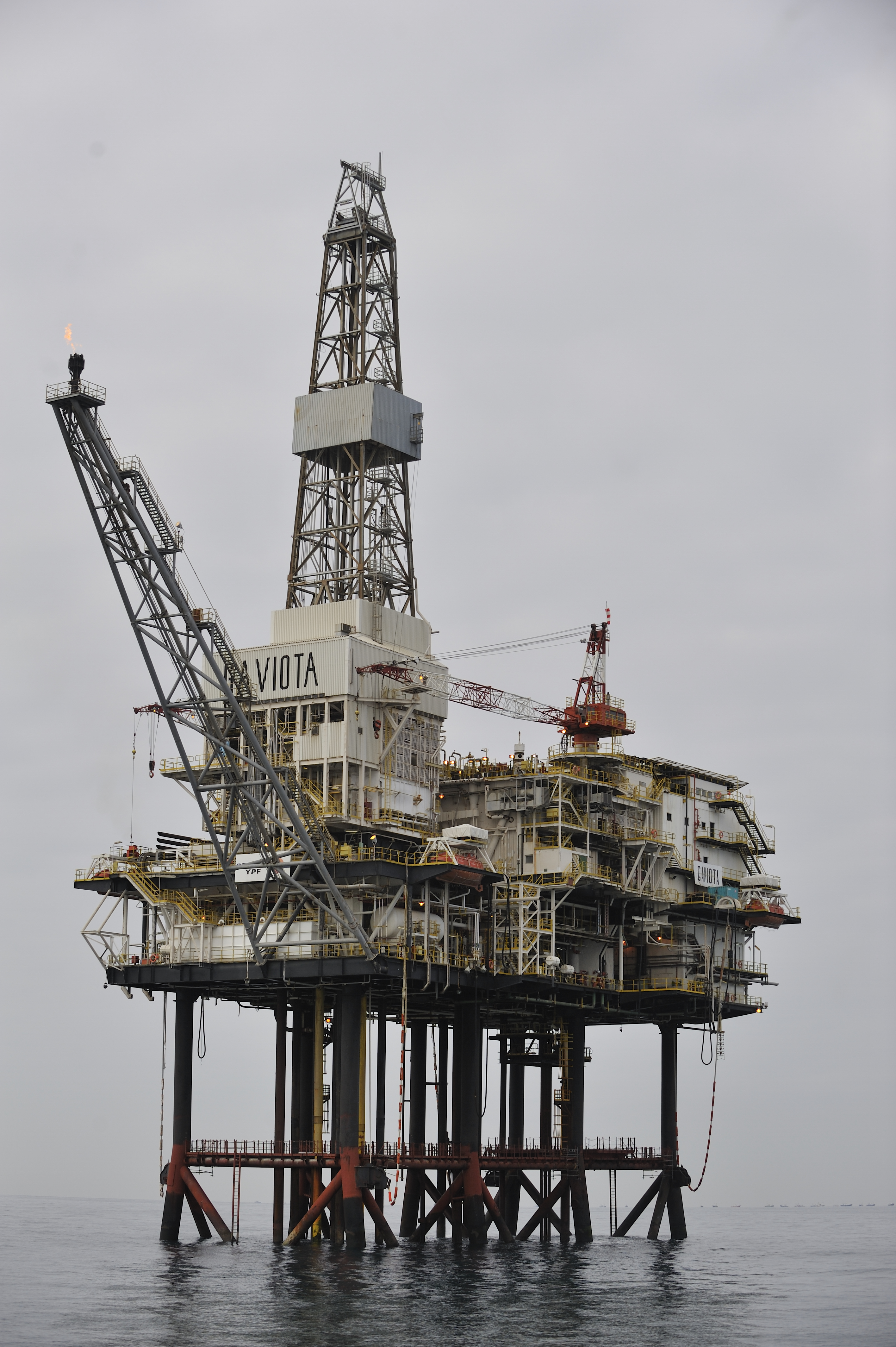 Gaviota gas platform. Bermeo, Bizkaia. Basque Country.